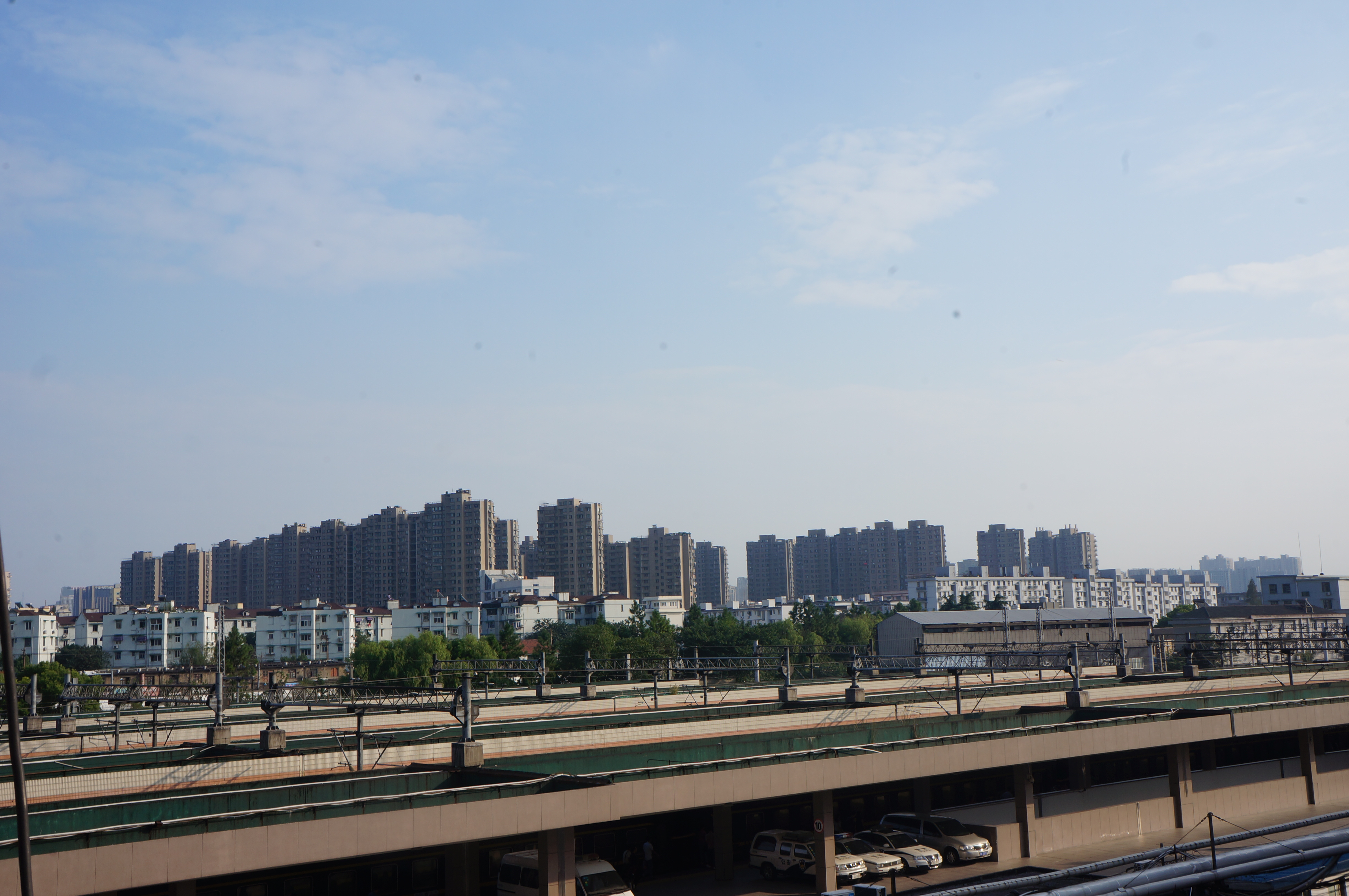 201610 Wangjiang, Hangzhou, taken from Hangzhou Station. If the gate of Hangzhou Station faces east, that Shibanqiao would become another "Shengou Village"